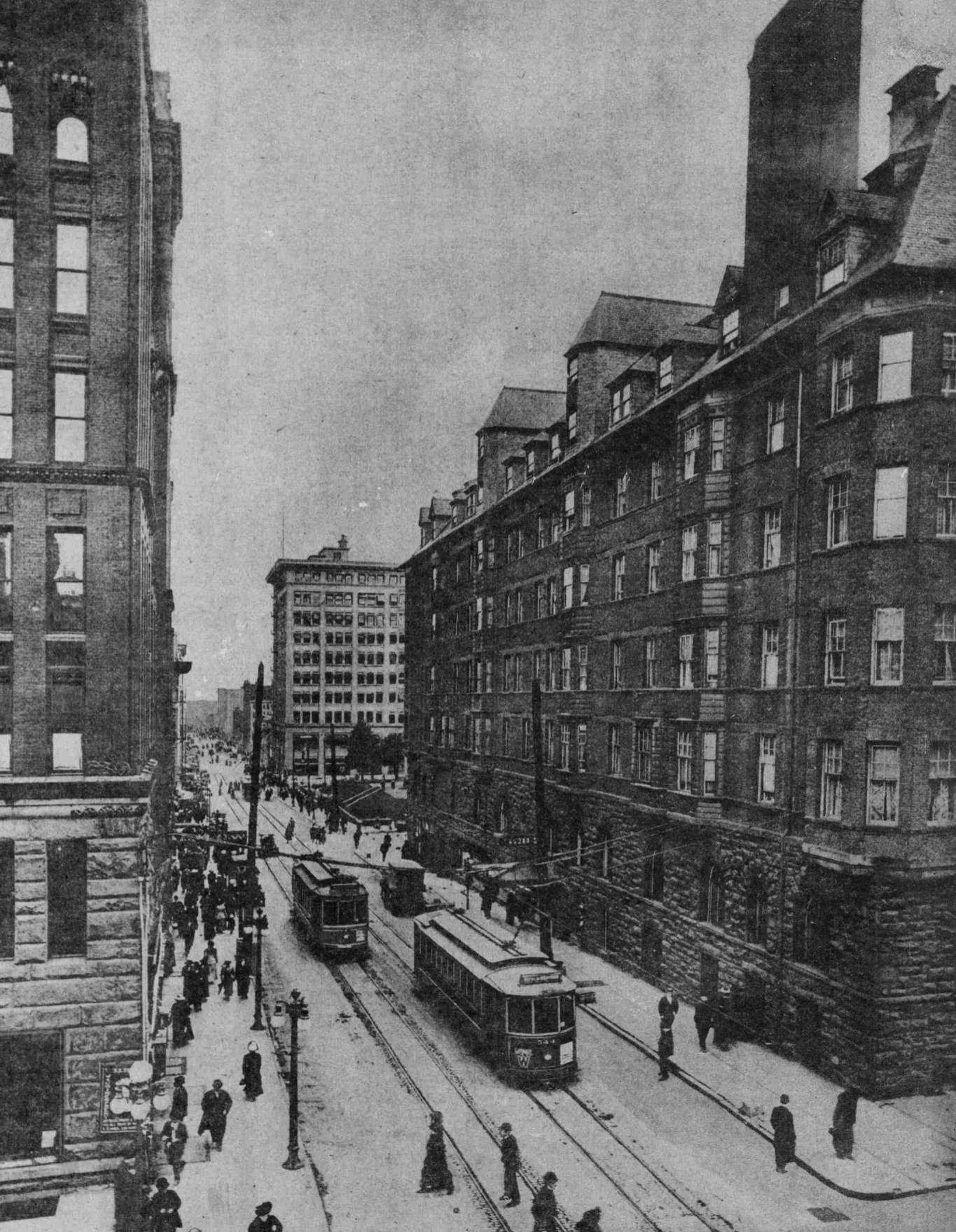 Morrison Street at Seventh Avenue in Portland, Oregon from the January 1, 1912 edition of the Morning Oregonian. The main building in view is the Portland Hotel (its north side). A small portion of the Marquam Building is visible at left.